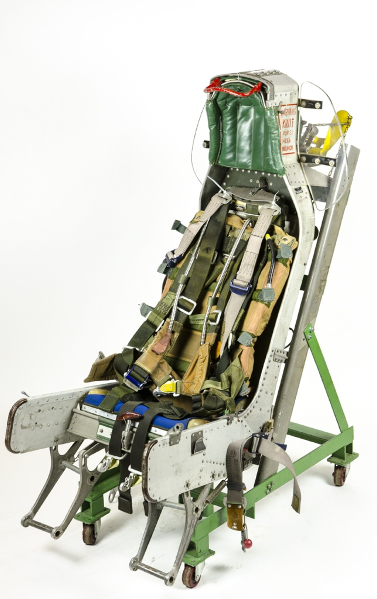 An ejection seat for the Saab A 32A Lansen attack aircraft. Also known as the Saab Mk III Seat. From the collections of the Swedish Air Force Museum.